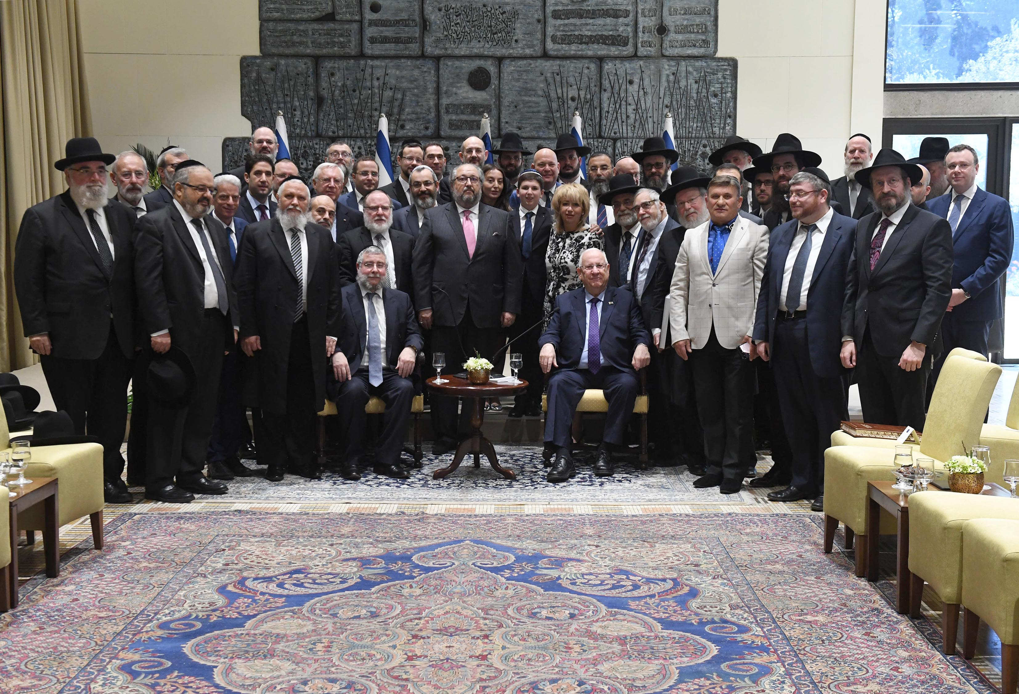 The President of Israel, Reuven Rivlin, at a meeting with the Conference of European Rabbis Tuesday, November 20, 2018. Photo Credit: Mark Neiman / GPO.